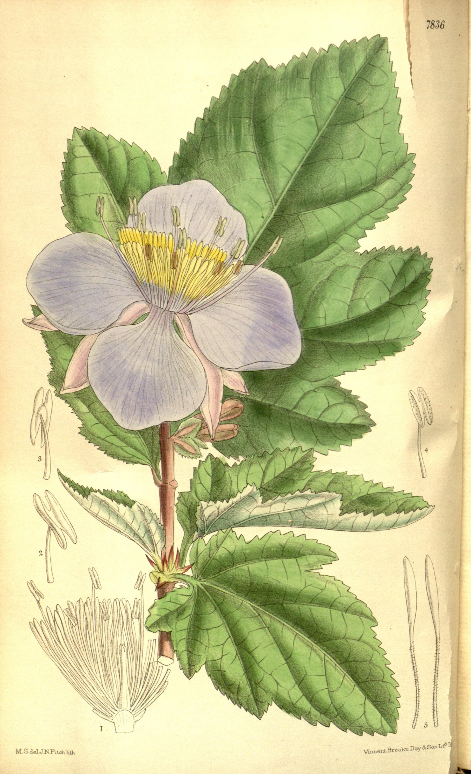 Listed as Honckenya ficifolia, now known as Clappertonia ficifolia